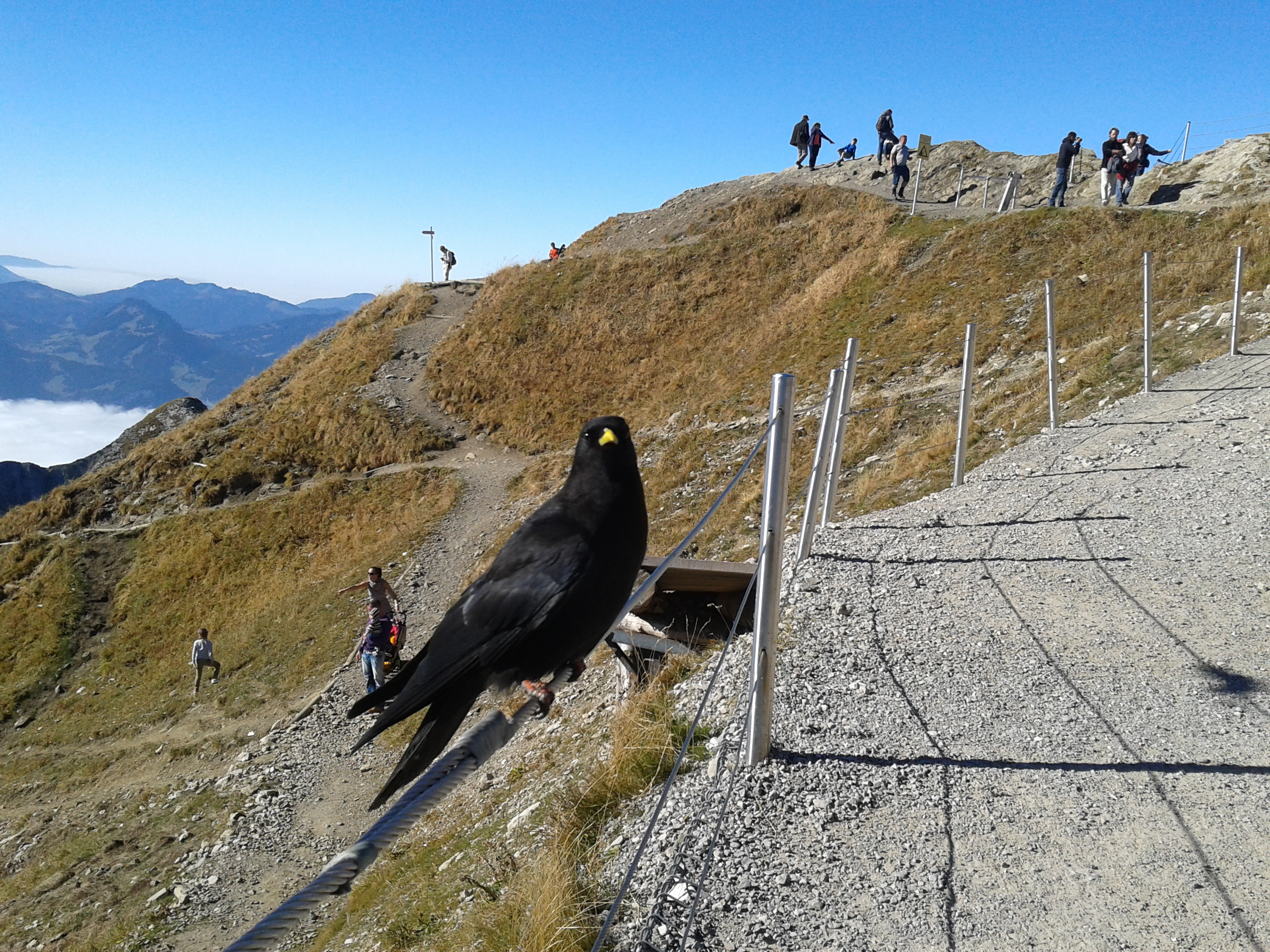 Alpine Chough on Nebelhorn